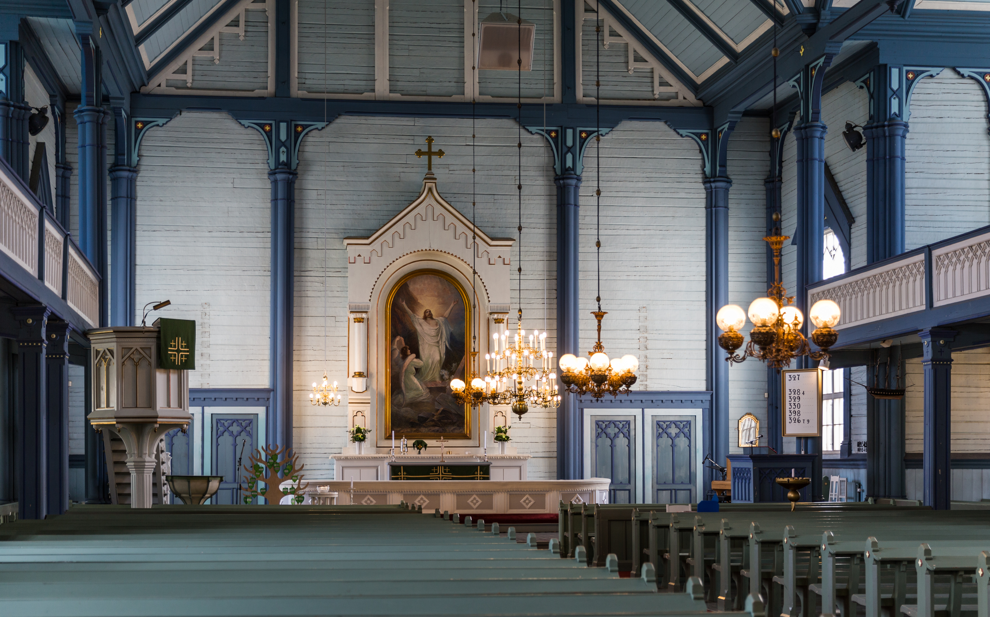 Peräseinäjoki Church Interior